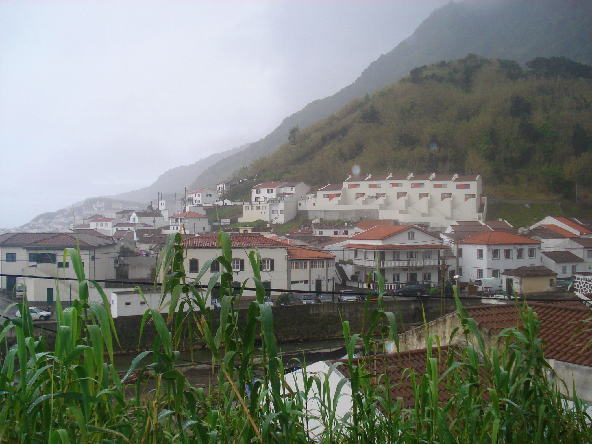 The civil parish of Ribeira Quente seen from the mists in the municipality of Povoação (Azores), Portugal